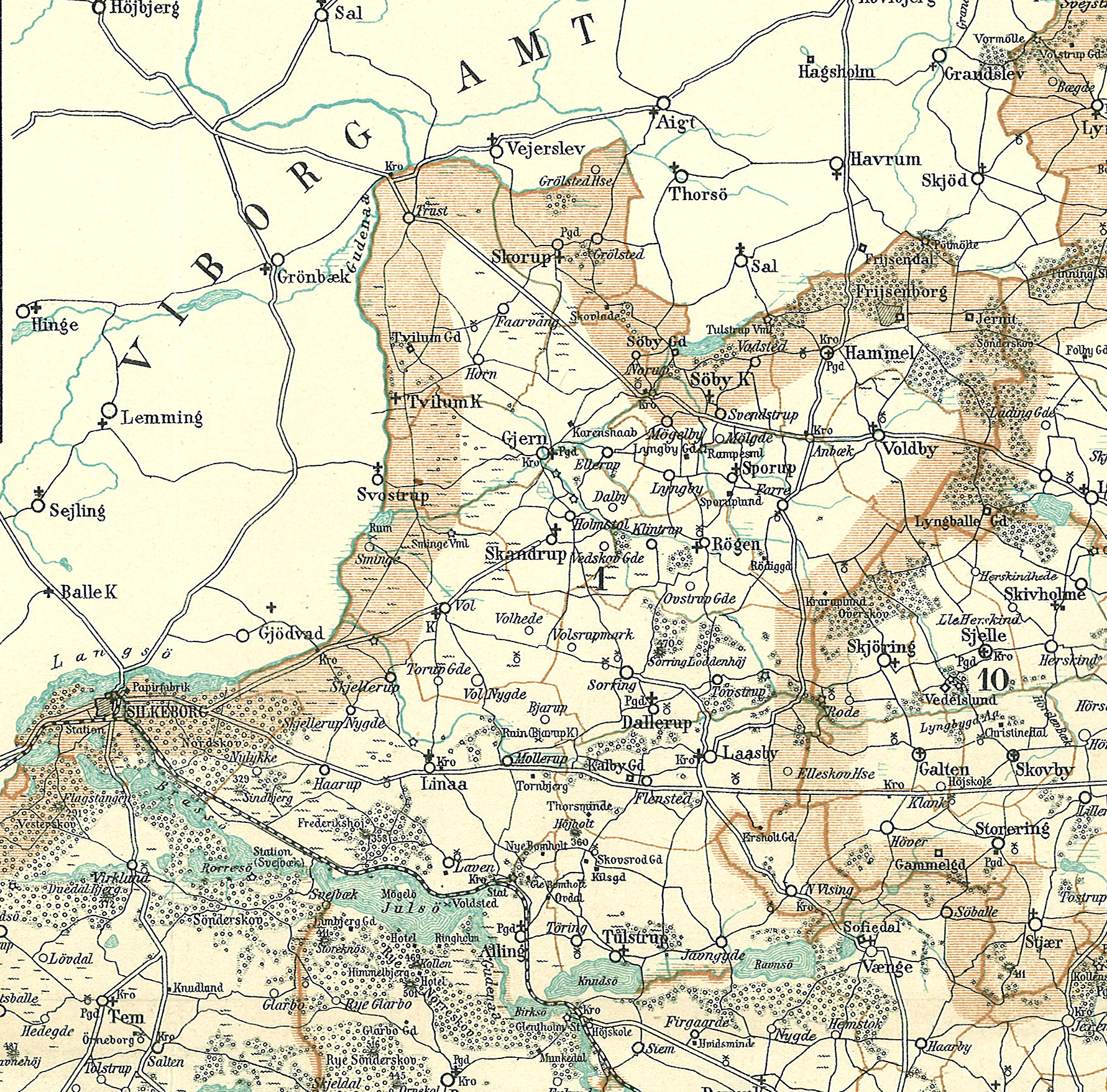 Map of Gjern Herred in Skanderborg County in Denmark